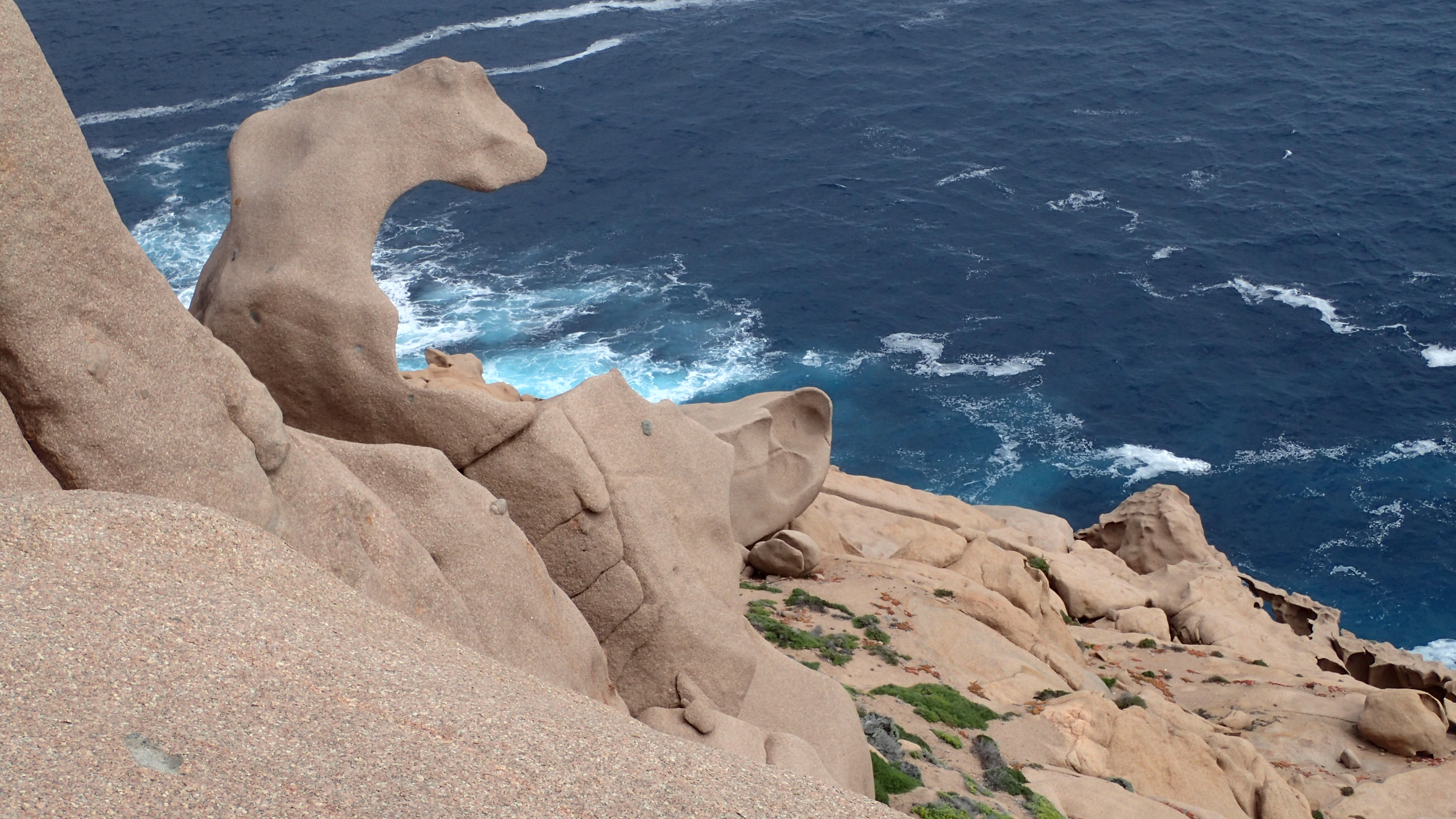 Around 30M above sea-level, just below the Navigation light and overlooking the Northern side of Pearson Island